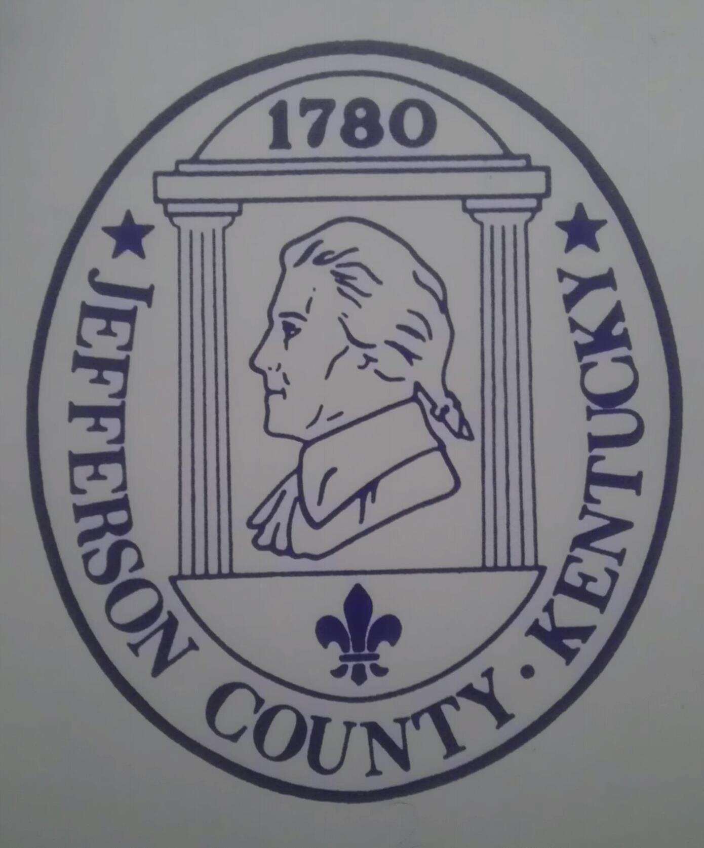 seal of defunct Jefferson County government